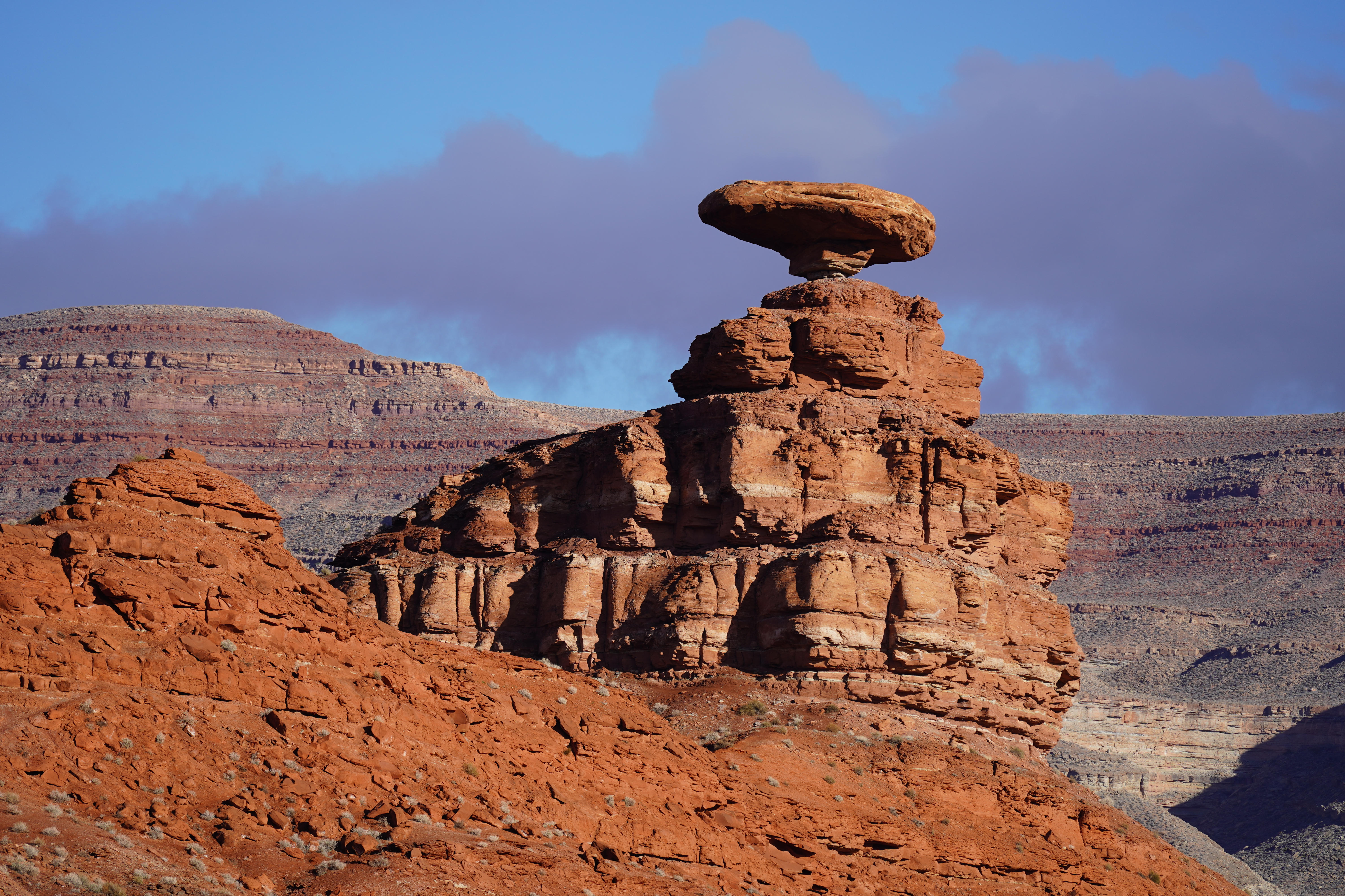 The photograph is of the northwestern face of Mexican Hat Rock near Mexican Hat, Utah. Photograph taken on 2019-03-02T23:37:14Z.